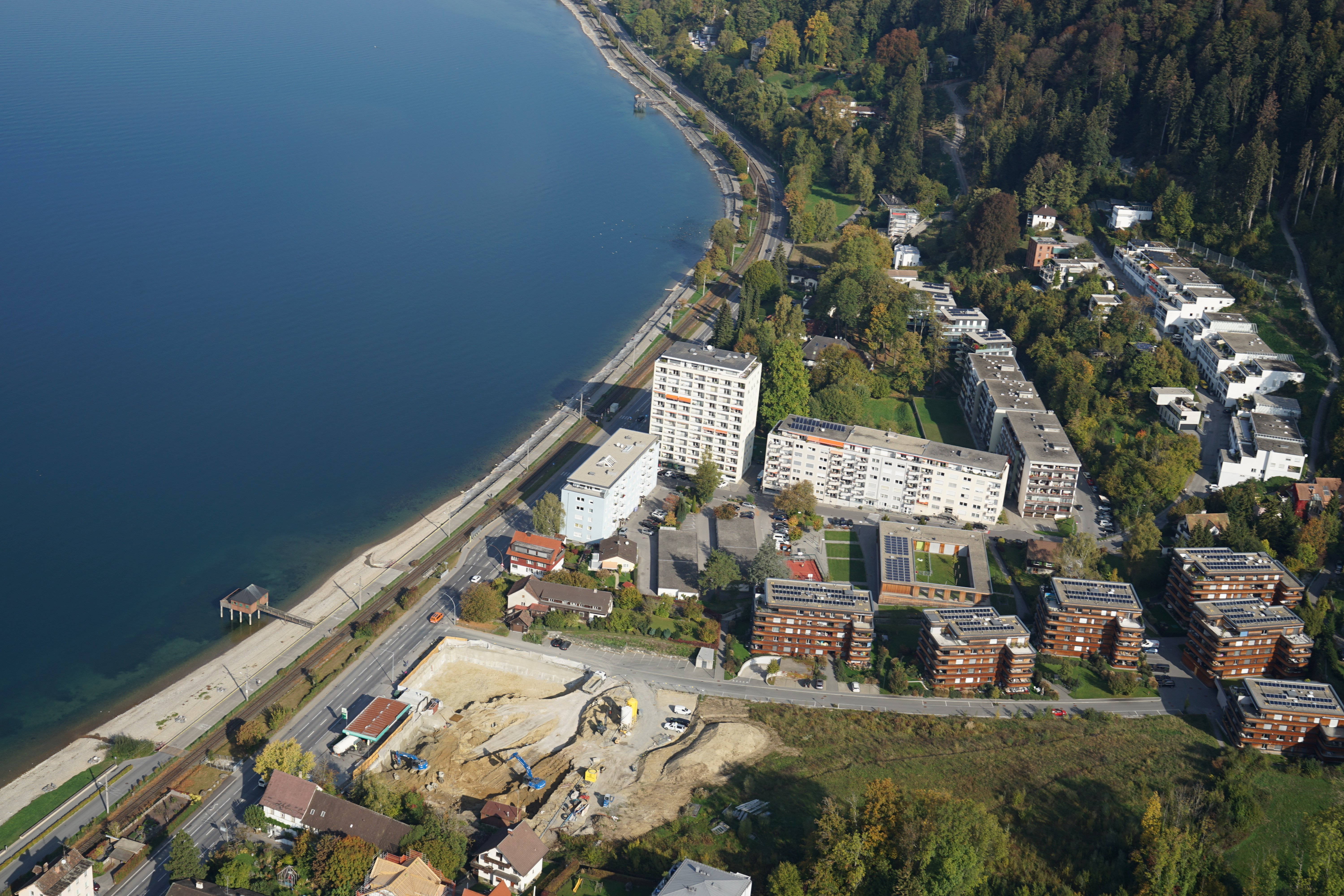 Lochau in Vorarlberg, Austria. The site of the former Klausmühle and the Neue Schanze (Seeschanze) from the collection: Raumplanung / Land Vorarlberg, Vorarlberger Landesbibliothek (volare